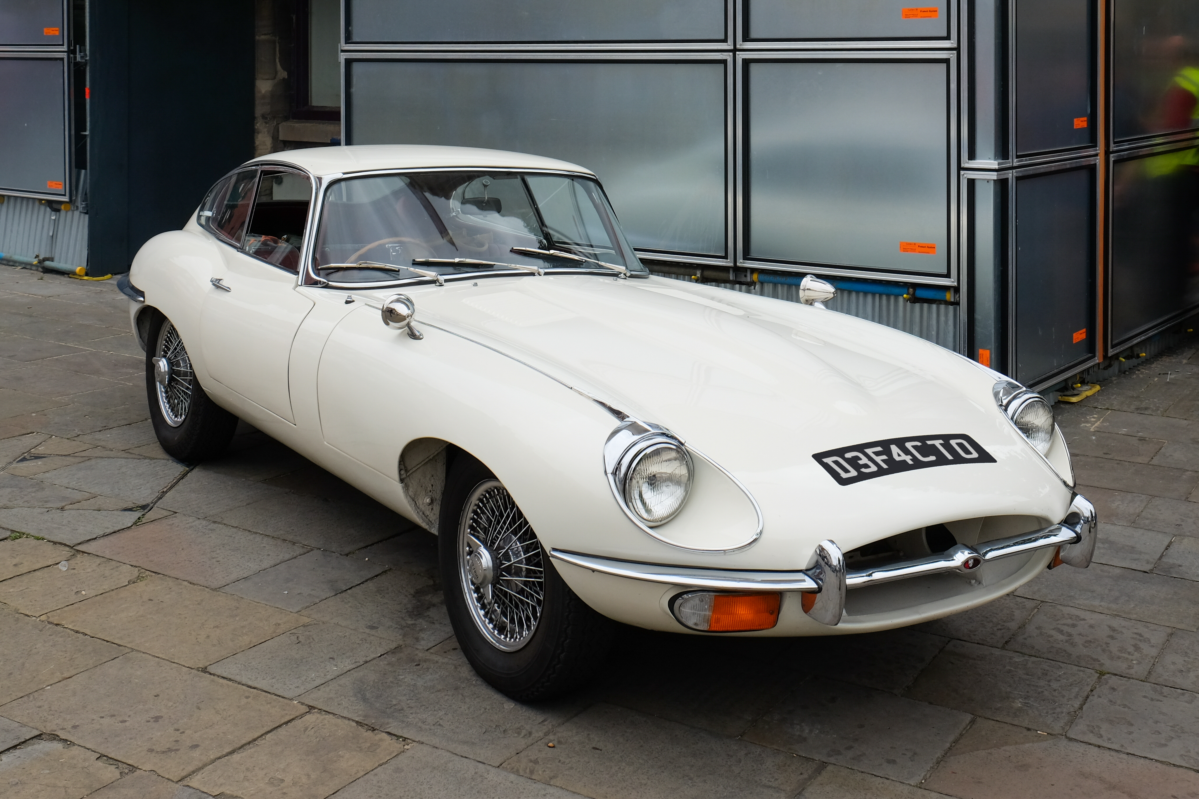 A 1968 Jaguar E-Type series 2 coupé. Photographed at the RetroWarwick Classic Car Show 2016, Warwick, UK.